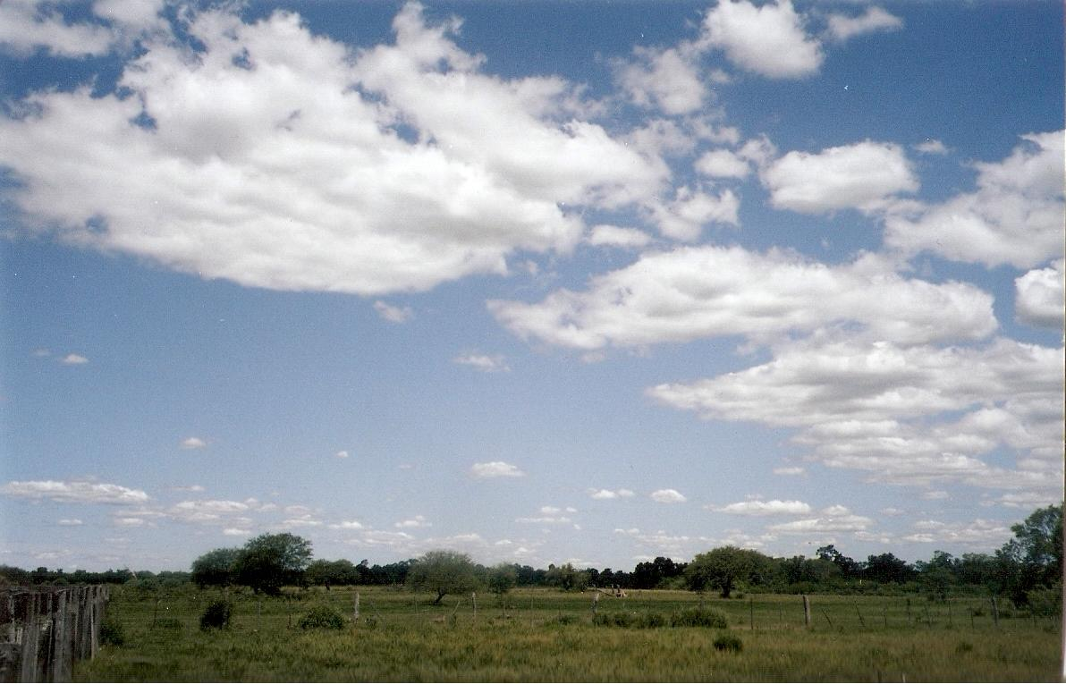 A country in colonia General Paz, departamento Quitilipi, Chaco province, Argentina. The plateau alternates natural pastures and forest.